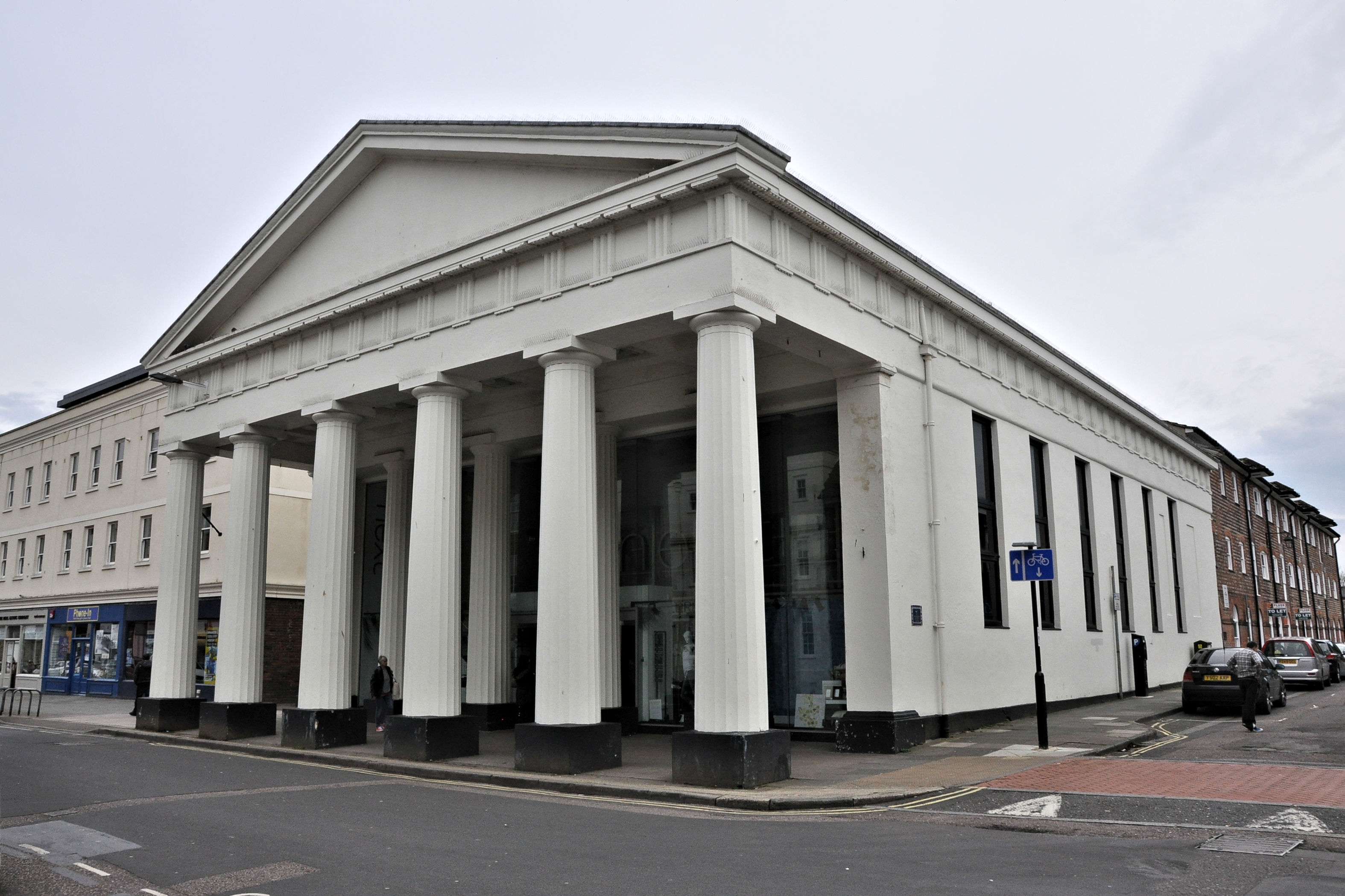 Built in 1836 to a design of John Elliott.